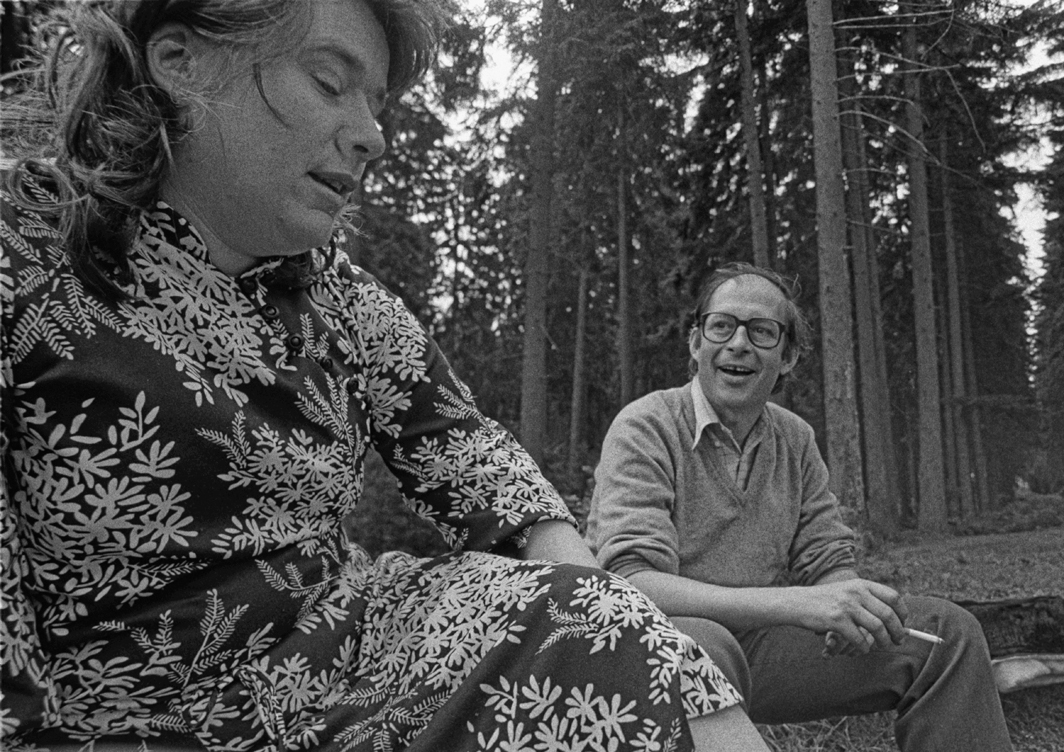 Klaus Weber and his wife Mary Osborn in a forest in Germany in about 1983. This was on one of the "Betriebsausflug" days when a company, lab or other work group basically just goes off somewhere and messes around, eating, drinking, socializing and playing games.